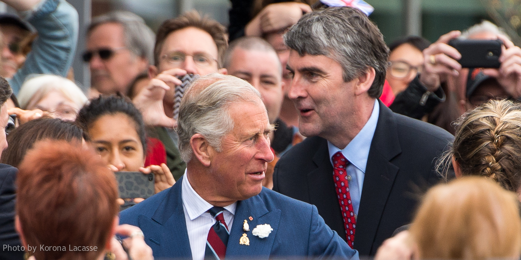 Day 2 of the Royal Visit to Canada - Halifax, NS